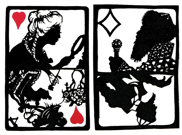 silhouette cards by E.Kruglikova